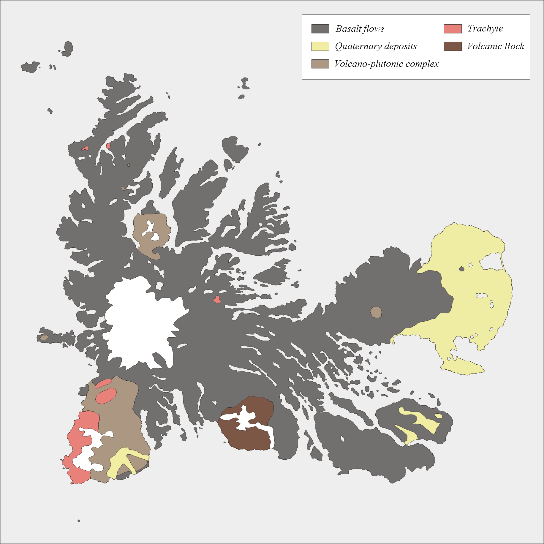 Geological map of Kerguelen Islands, French Southern and Antarctic Territories drawn by varp Translated version of the original which can be found here